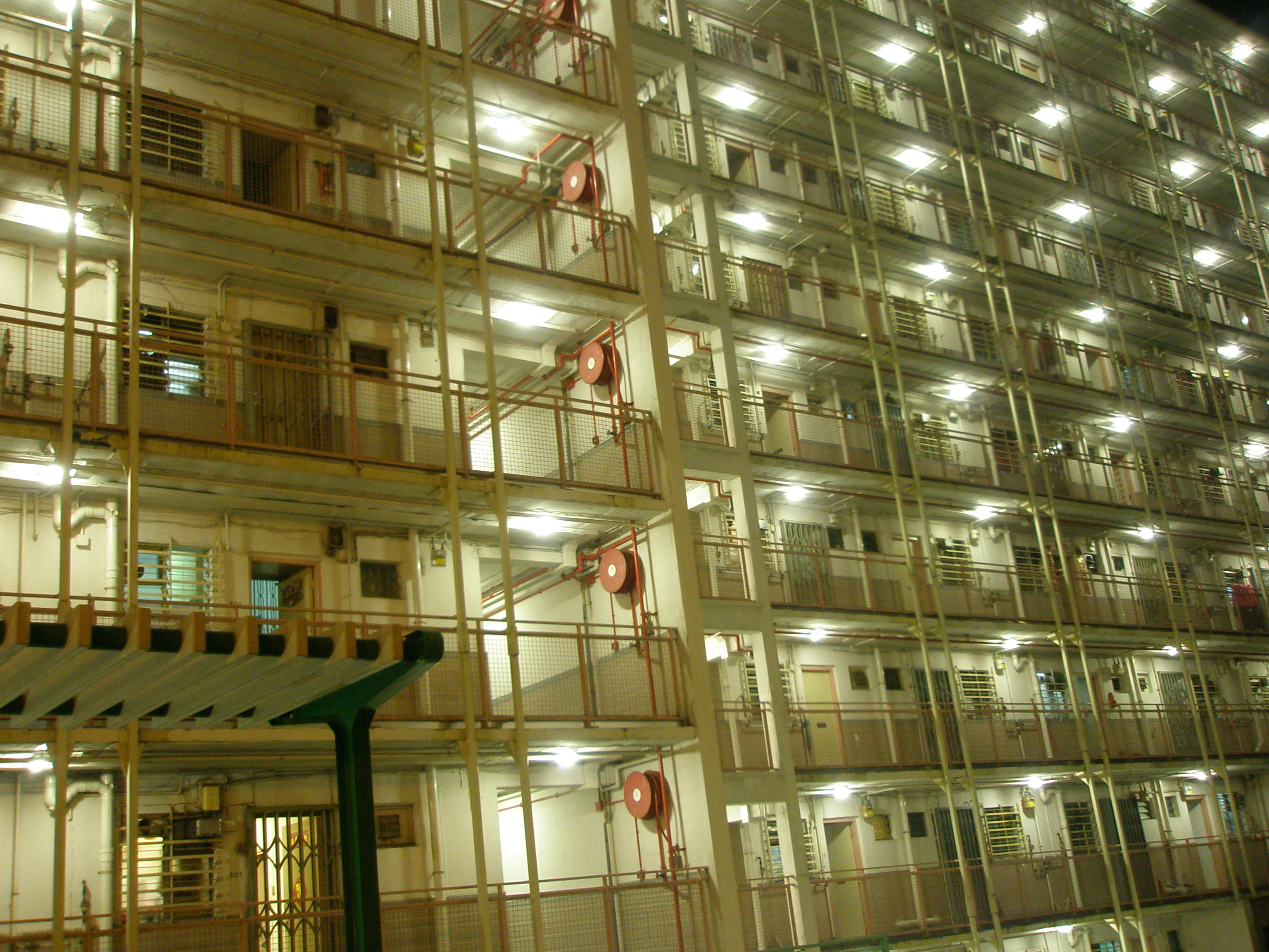 A part of Sai Wan Estate seen by night